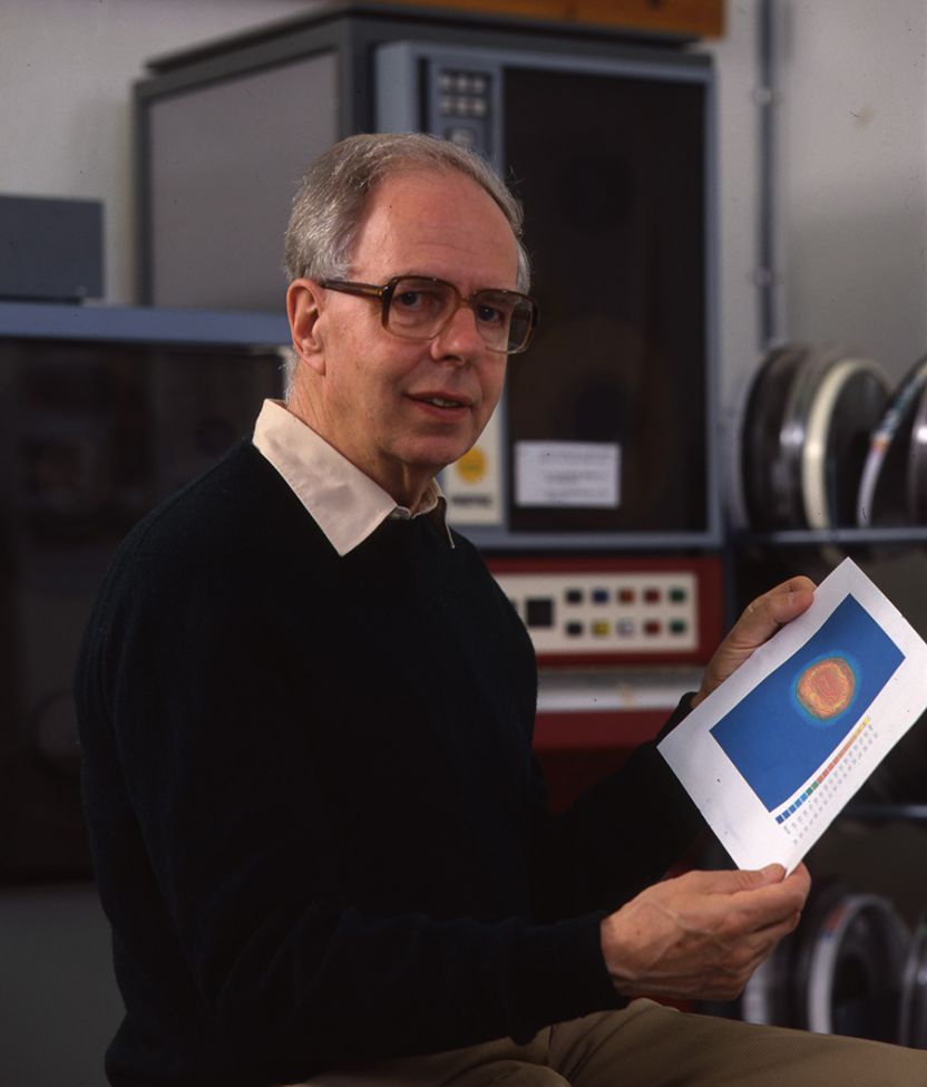 Hellmuth Hertz 1920-1990 German/Swedish physicist, Professor, Lund University, Sweden. Cropped